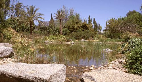 The Botanical Garden of the Arboreto del Carambolo possesses two interconnected lagoons.